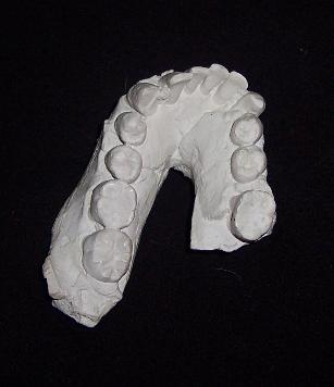 Cast replica of OH 7, the type specimen of Homo habilis.